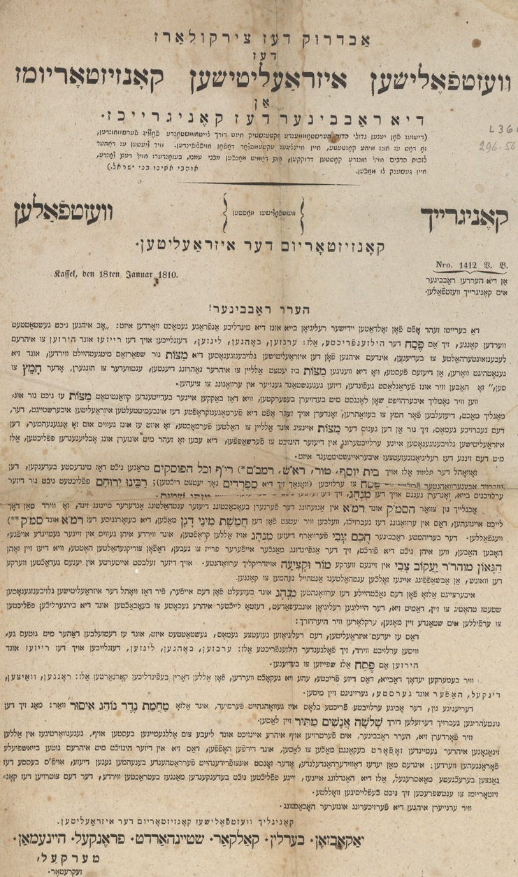 An official declaration of the Royal Westphalian Consistory of the Israelites, written in High German rendered in Hebrew script mixed with some Judaeo-German dialect, permitting the consumption of legumes during Passover.